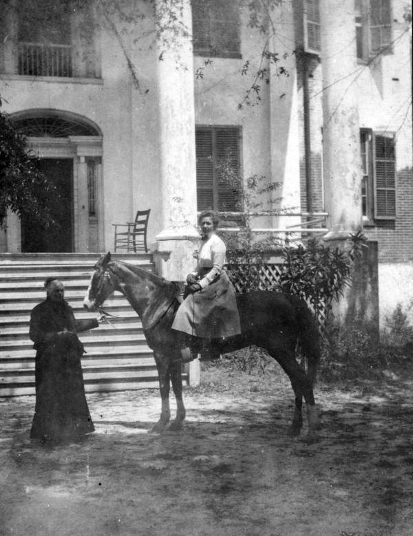 Ellen Call Long and unknown woman (possibly her daughter) in front of The Grove in Tallahassee, Florida. Ms. Long was the daughter of Gov. Richard Keith Call, and author of "Florida Breezes" or "Florida, Old and New." - See more at: Ellen Call Long was active in many civic organizations and activities, including Civil War and Confederate memorial efforts and the Women's Committee of the Centennial Exhibition in Philadelphia.